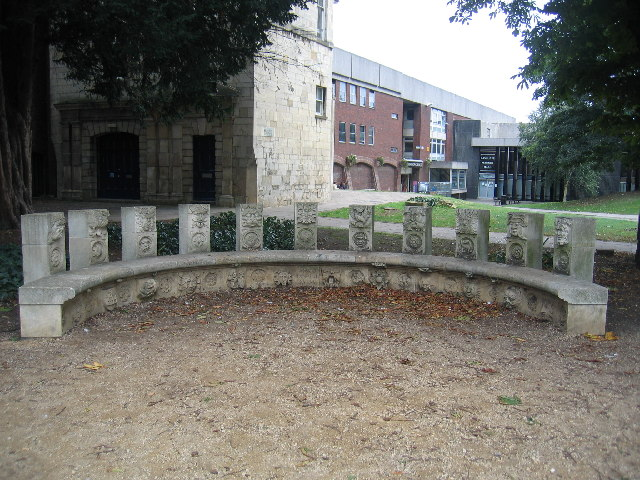 Semi-circular seat, St Mary de Crypt Churchyard, Gloucester. An unusual item of stone-masonry in this historic churchyard.